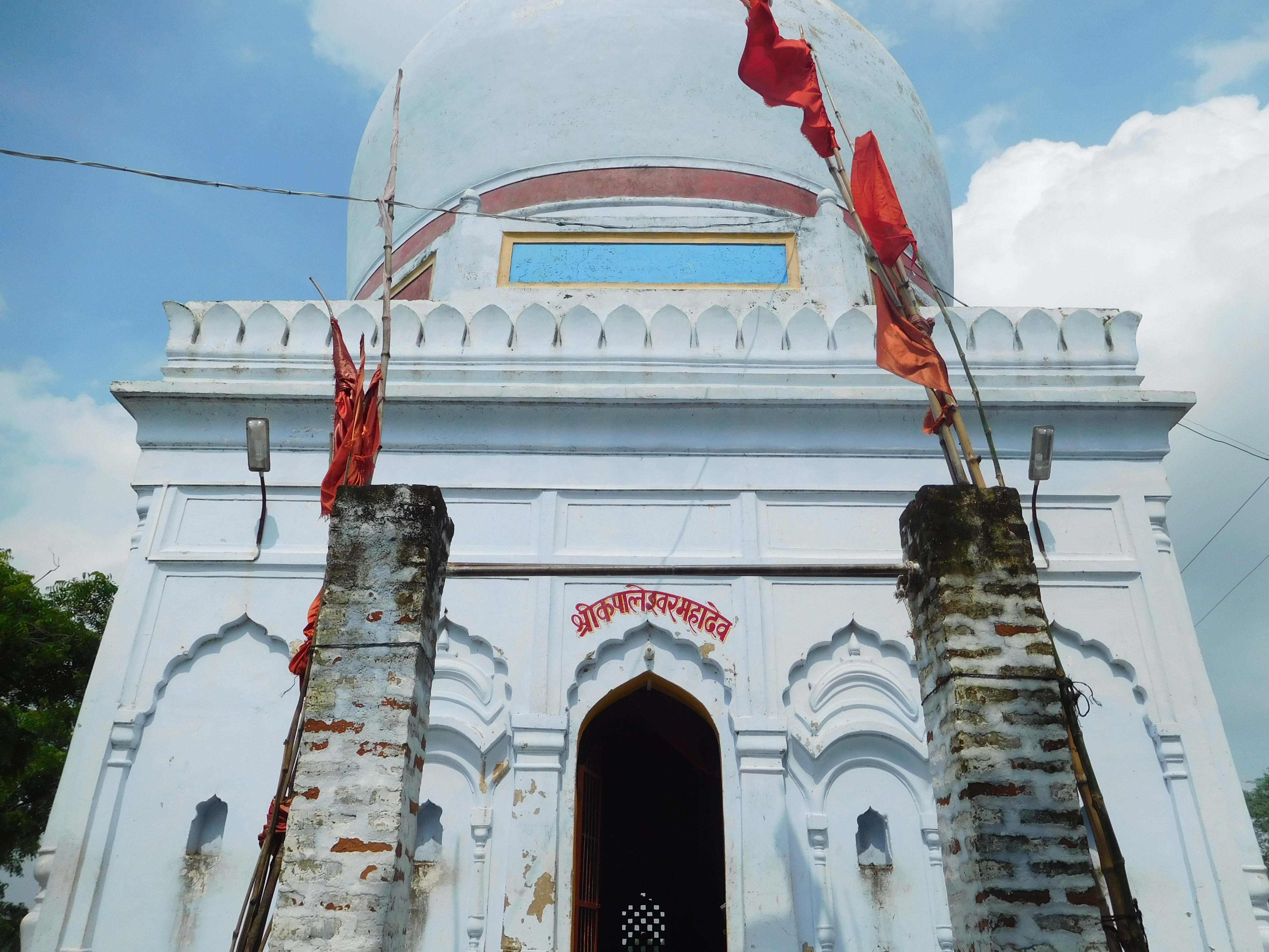 Kapaleshwar Temple (Derapur),Kanpur,Dehat,UP